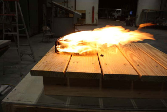 Photo is from fire test commissioned by TimberSIL Products to pass California State Fire Code 12-7A part B Test is post on our site